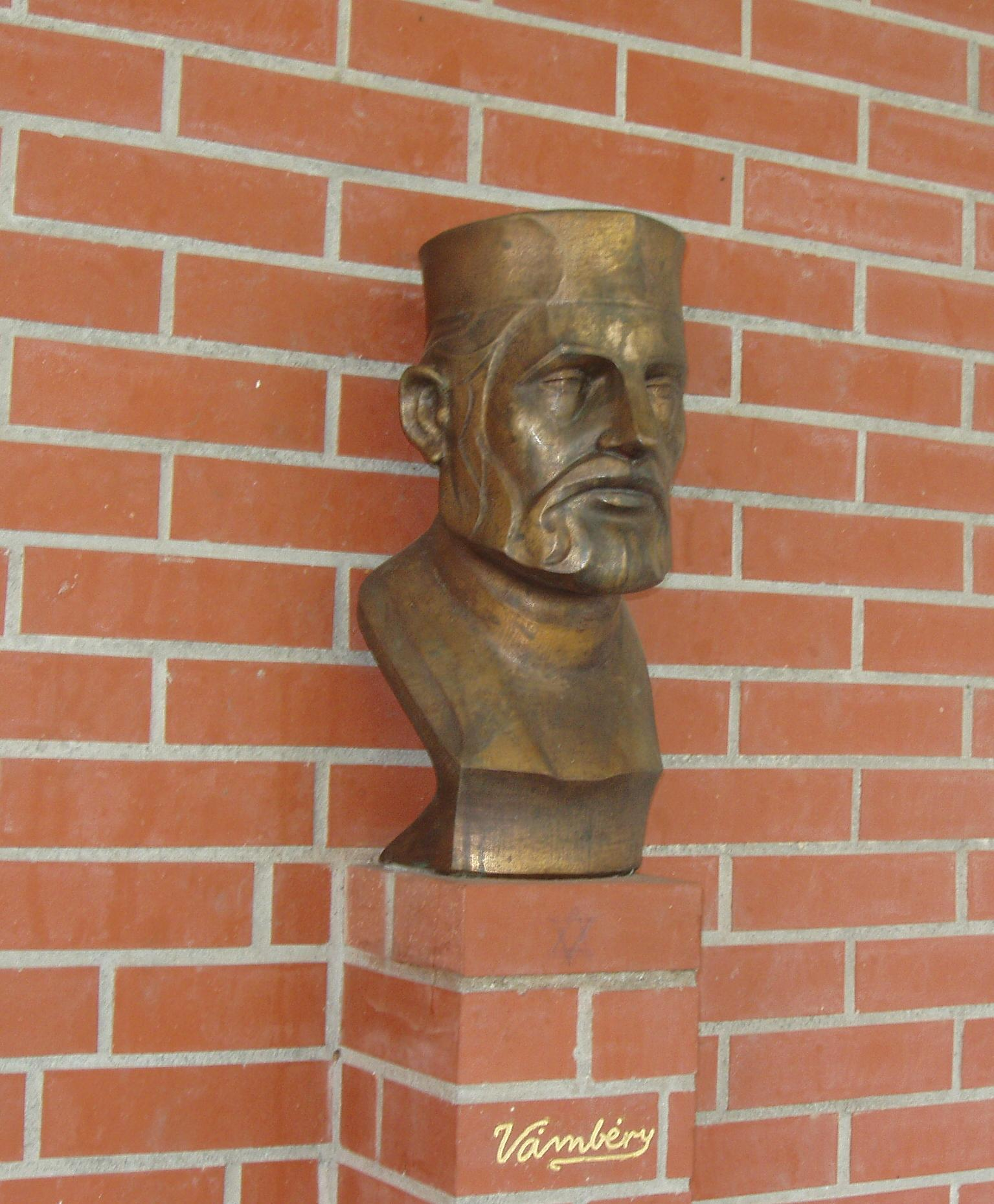 Photo taken by me in 2004